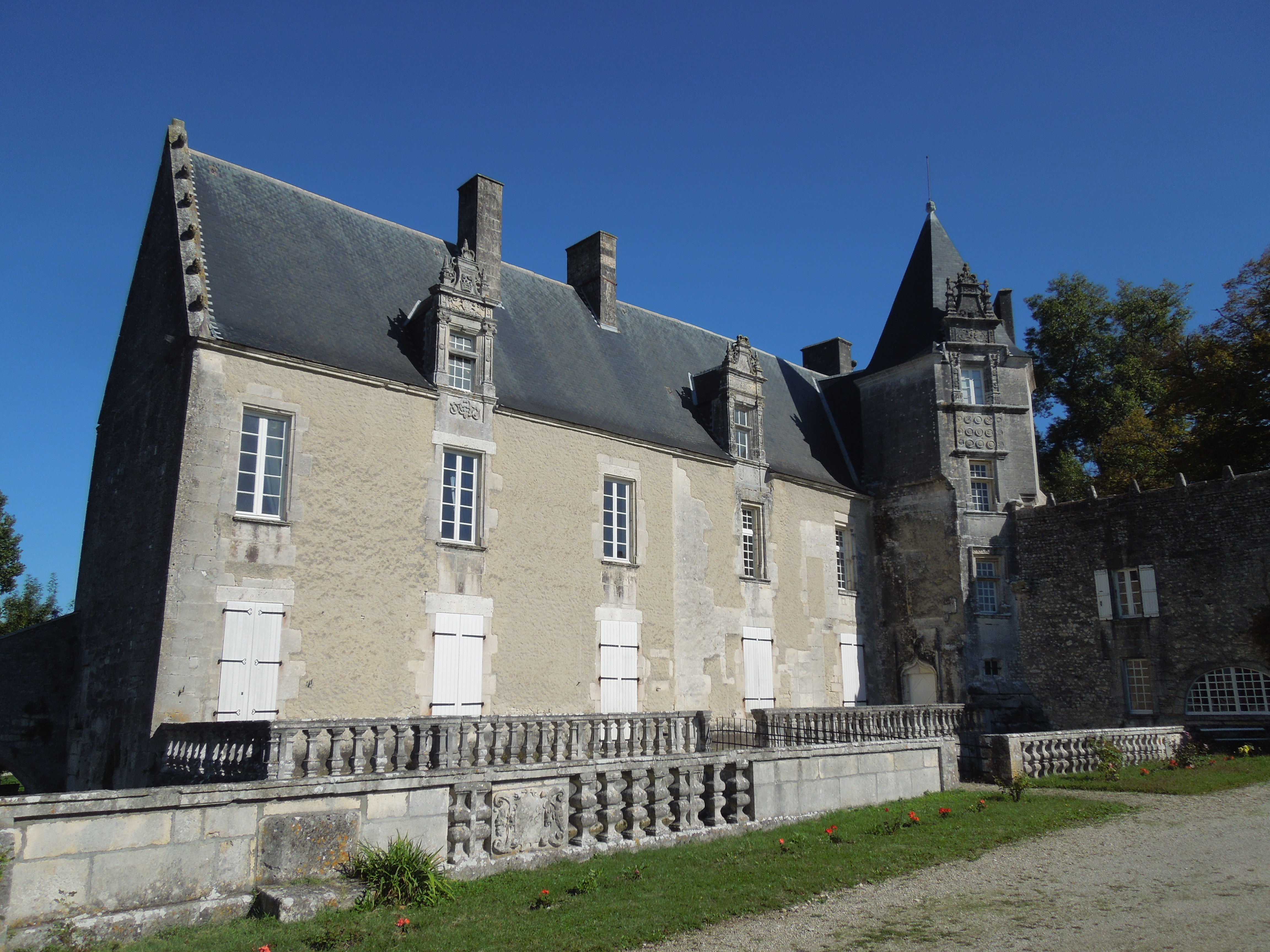 Château du Breuil near Bonneuil, southside